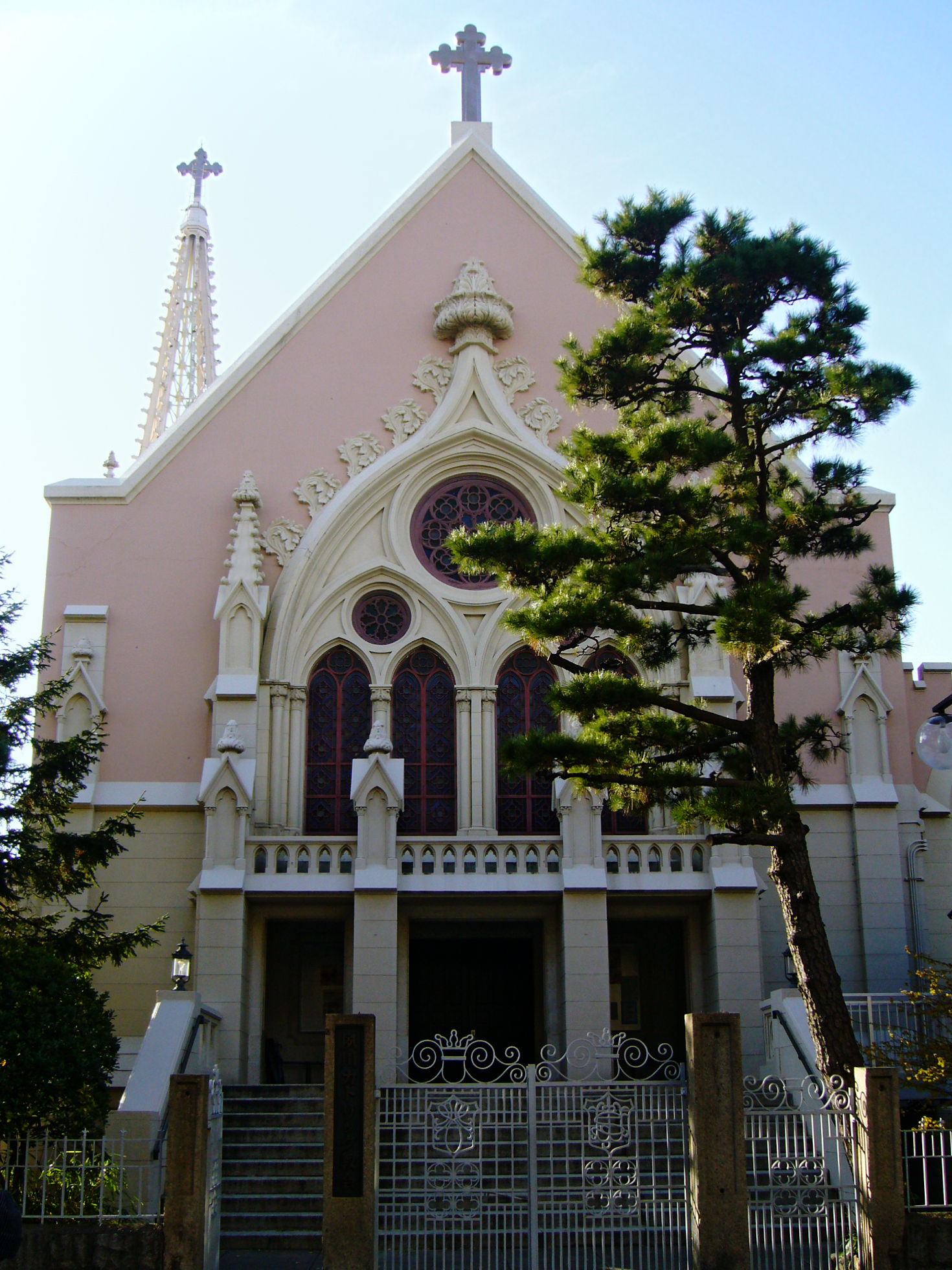 Shukugawa Catholic Church in Nishinomiya, Hyogo prefecture, Japan